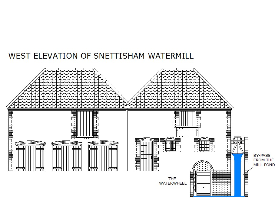 A J-peg Image Taken From AutoCAD Of Snettisham Watermill Created on the 11th October 2007